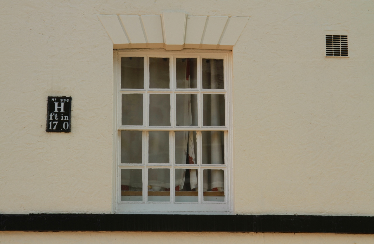 16-pane sash window on the north side of the Old Queen's Head public house, Pond Hill, Sheffield, South Yorkshire